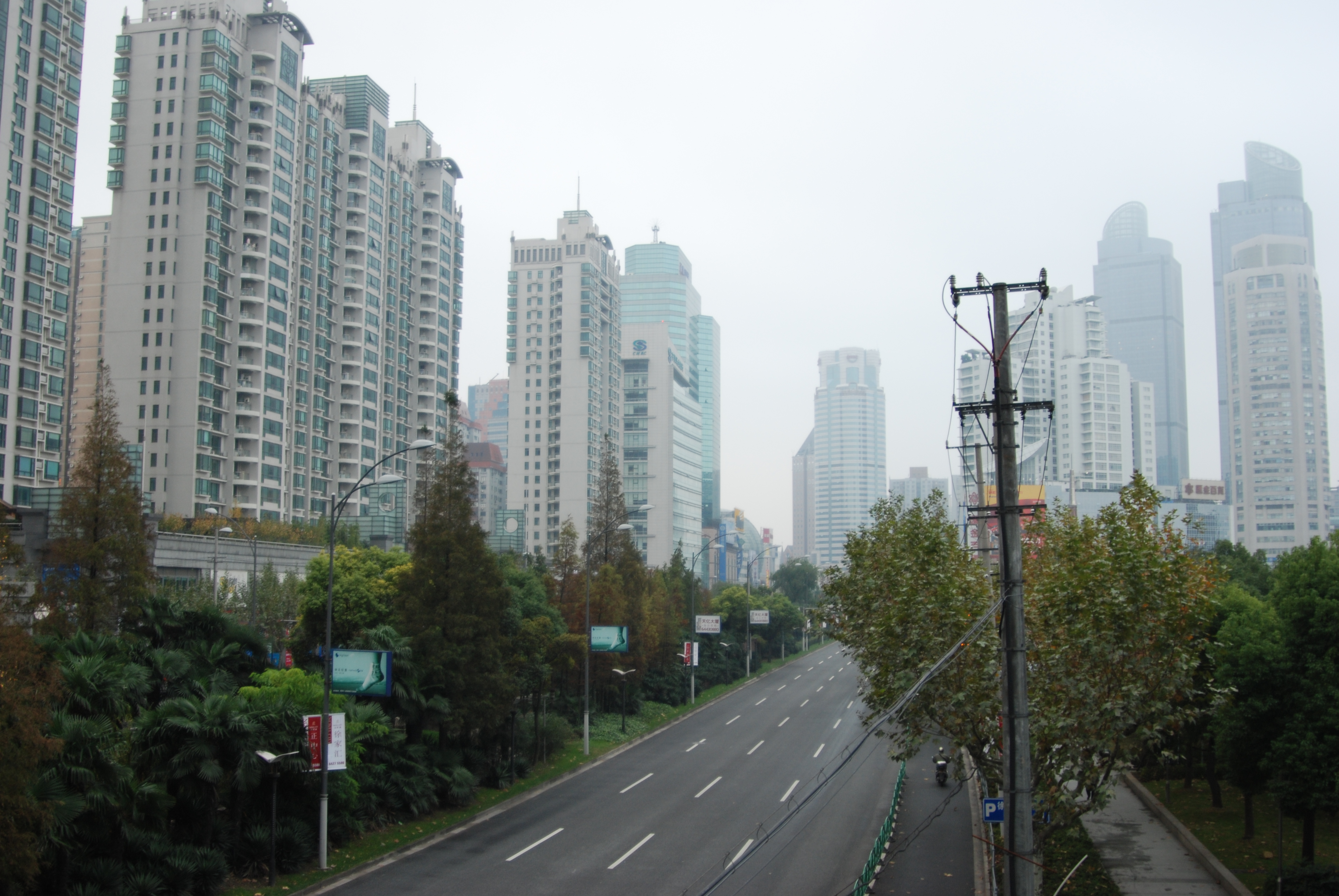 Zhaojiabang Road near Xujiahui